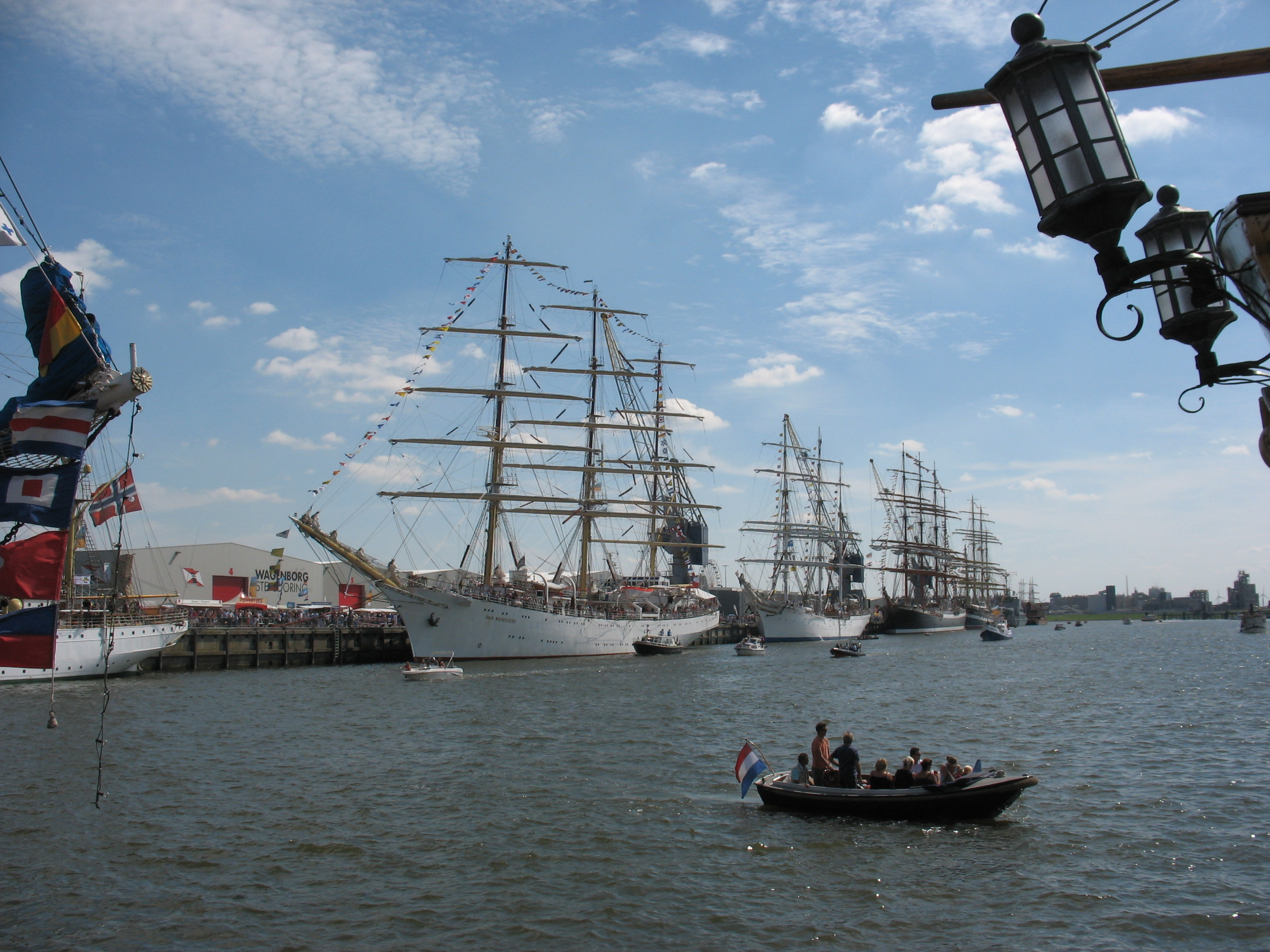 Picture taken during Delfsail, a 5-yearly sail event (the largest one of the Netherlands) in the town of Delfzijl, a town in the northeast of the province of Groningen. I don't know the name of the ship you see in the front, but the lamp on the right is a piece of "The Bounty", a pirate ship that was built for the movie "Mutiny on the Bounty".